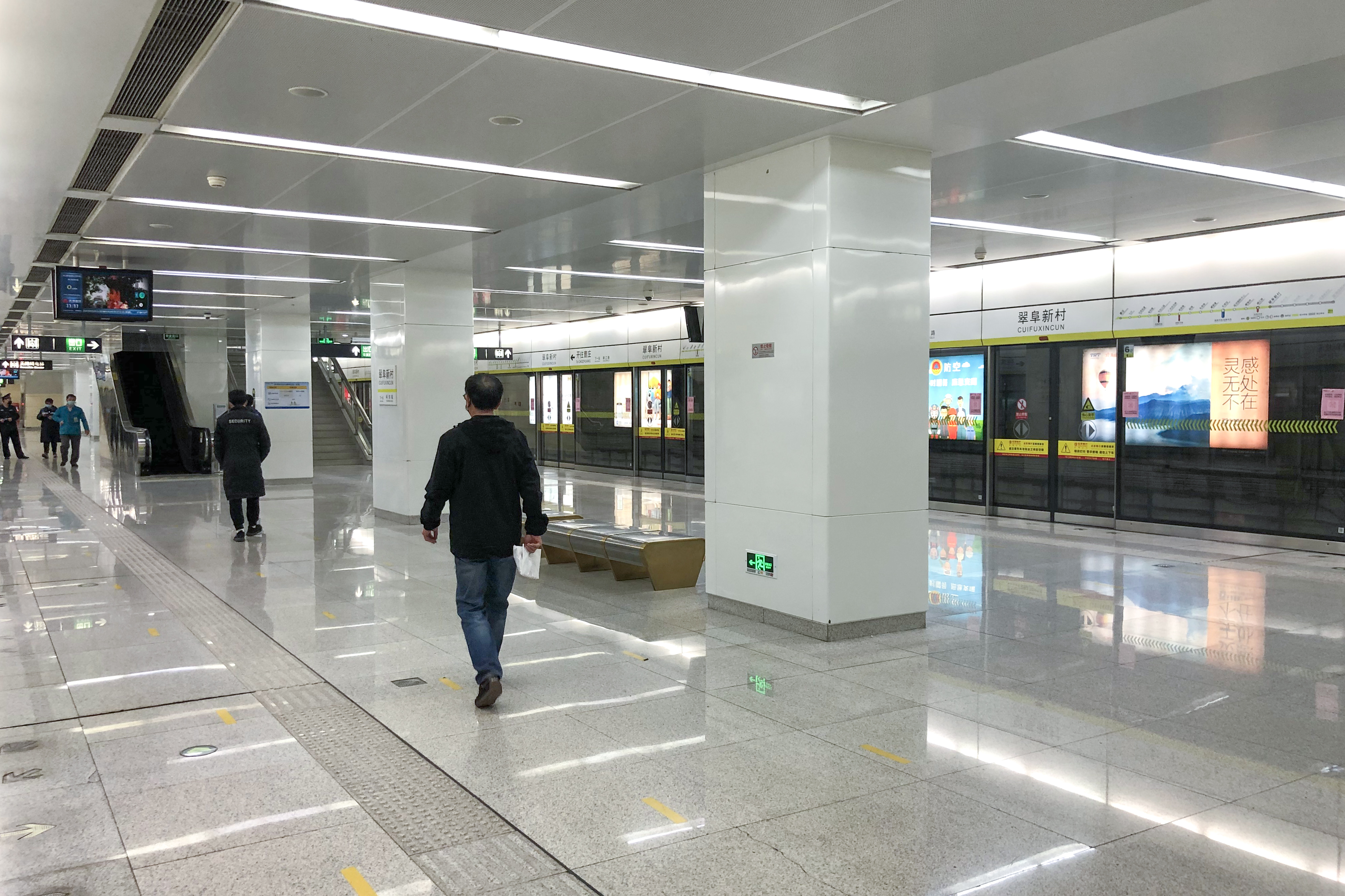 Just one of the by-products of my An-225 hunt...